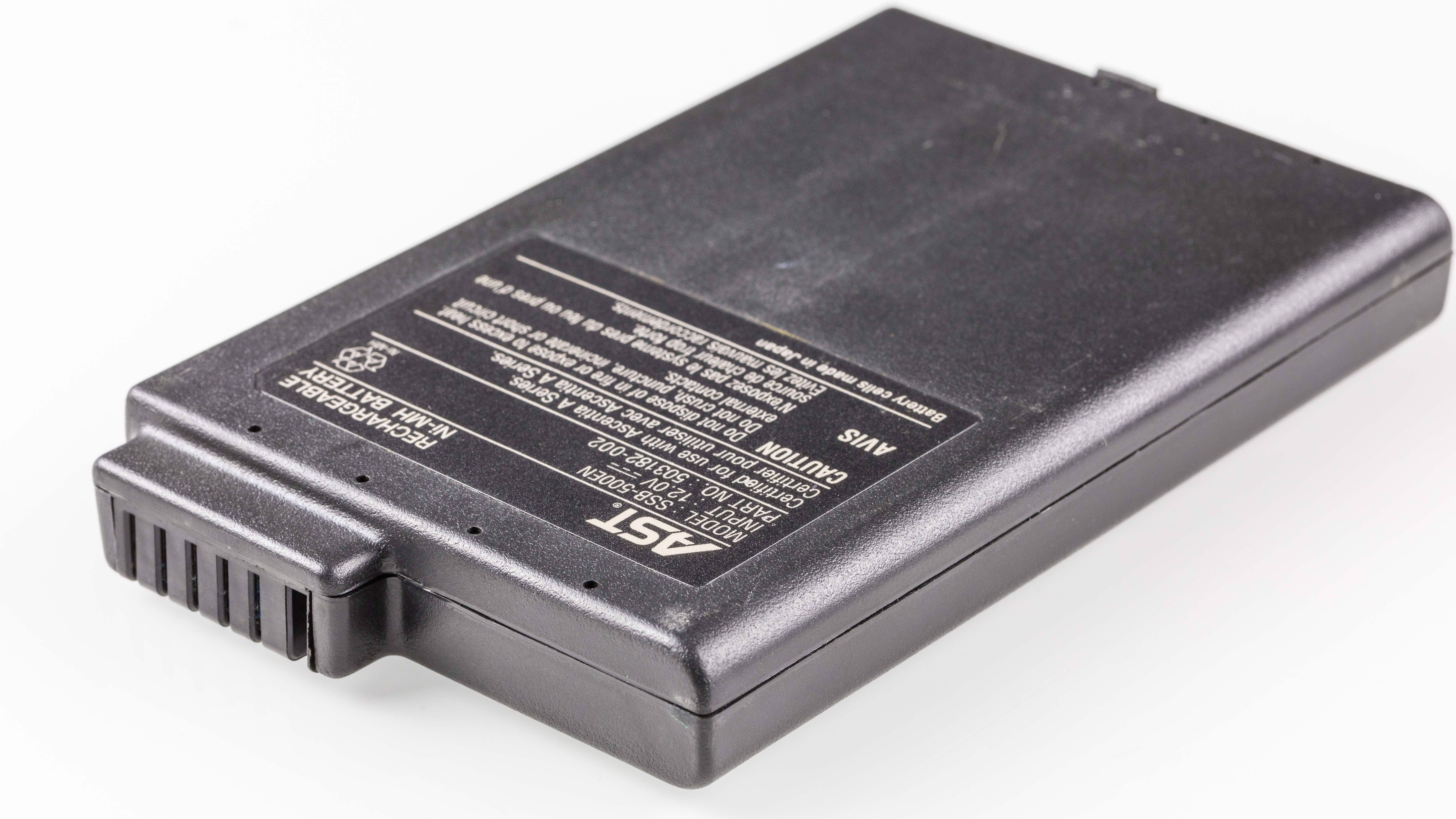 AST Ni-MH Battery SSB-500EN, 12V